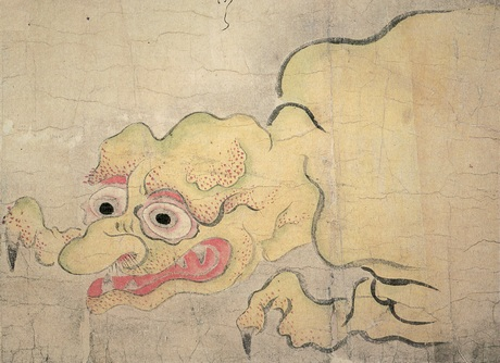 Waira (わいら) from the Bakemono dukushi (化物づくし)